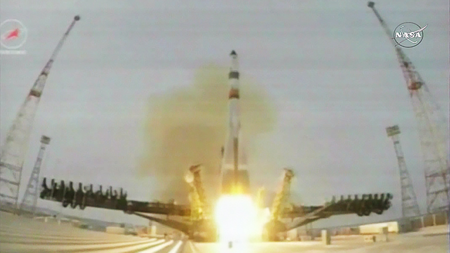 The Progress MS-1 (Progress 62) rocket launches from Kazakhstan on a two-day trip to the International Space Station.